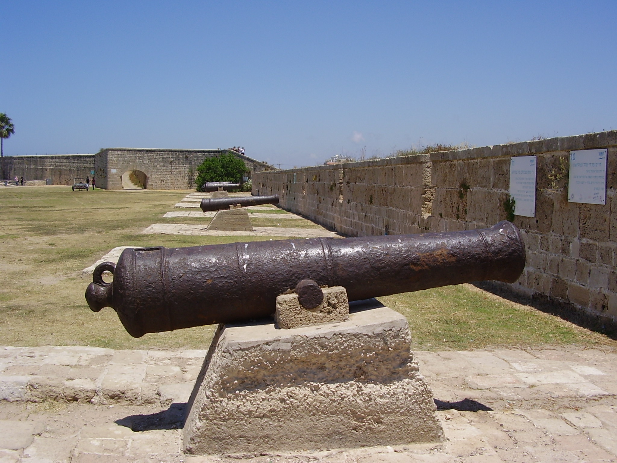 Cannons in Acre, Israel תותחים בחומת עכו